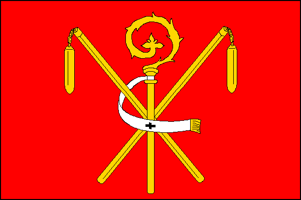 Municipal flag of Opatovice village, Přerov District, Czech Republic.